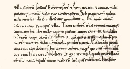 First lines of the Carmen Campidoctoris latin epic poem or "Latin Poem of the Cid".